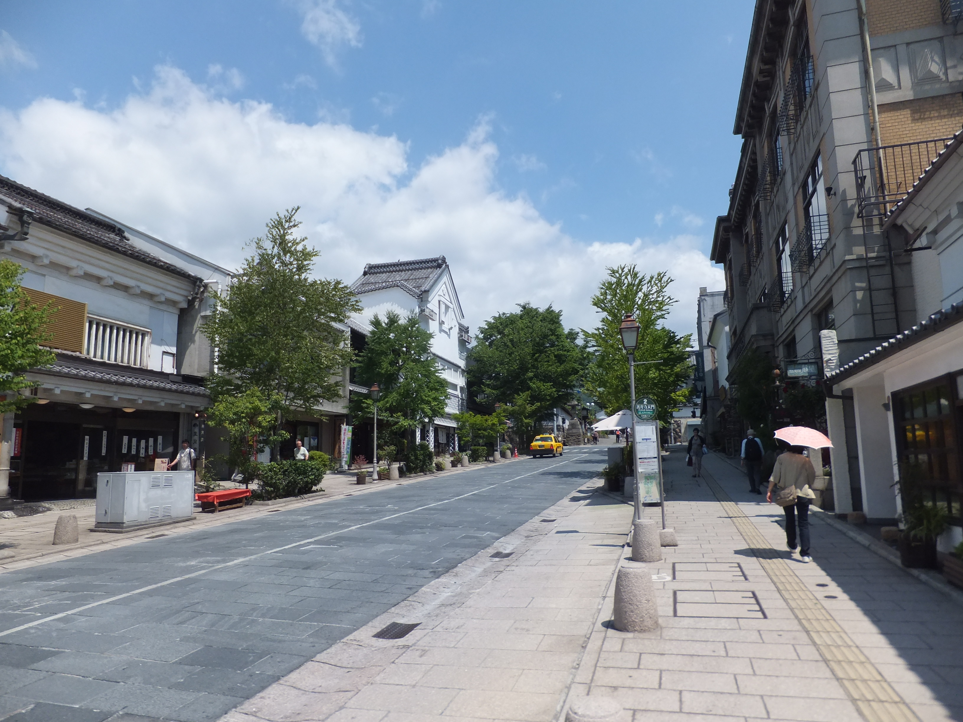 Chuo Street is an avenue in Nagano City that runs north and south and that is an approach to the Zenkō-ji.